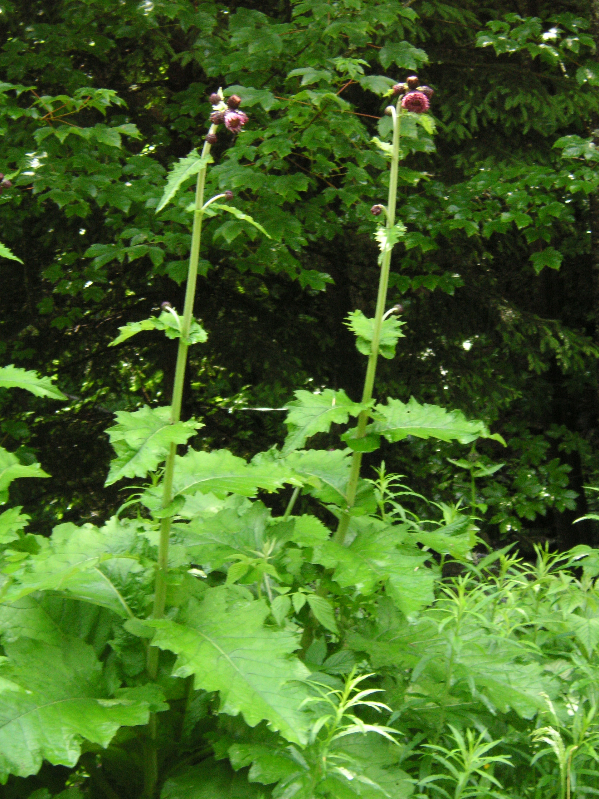 Cirsium waldsteinii